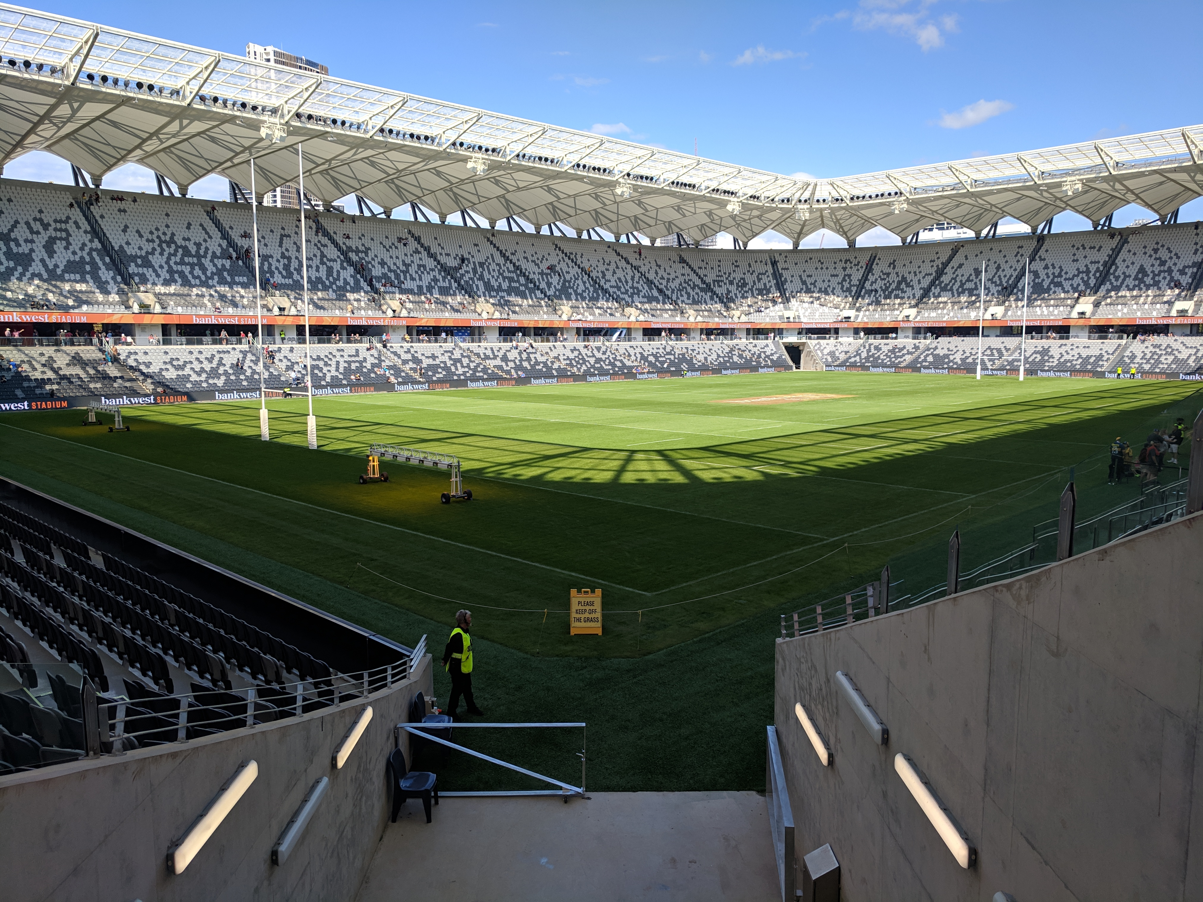 Picture of Western Sydney Stadium internals, taken at the Open Day on April 19 2019.